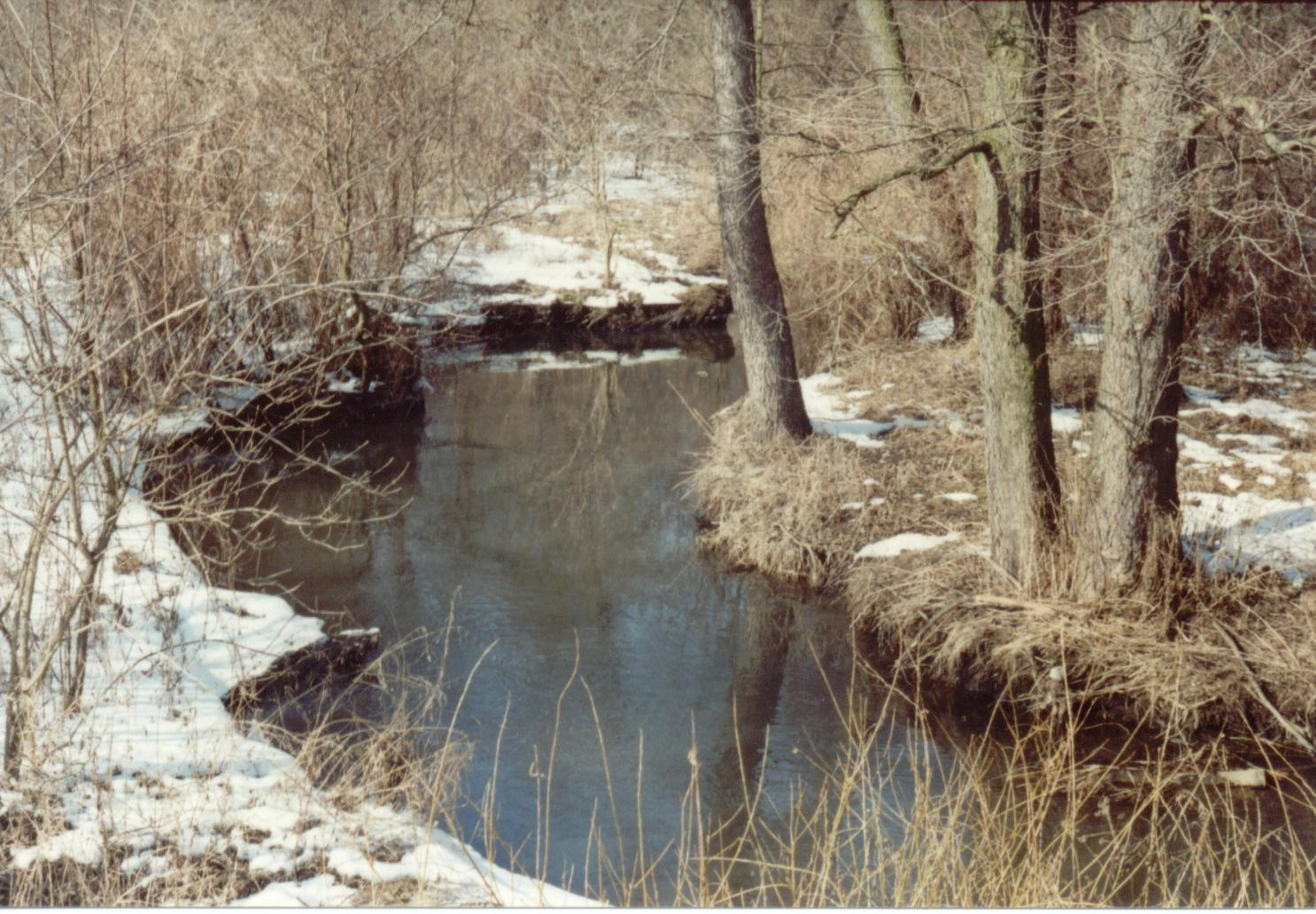 River Białka in winter (Lódź Voivodeship, Poland)